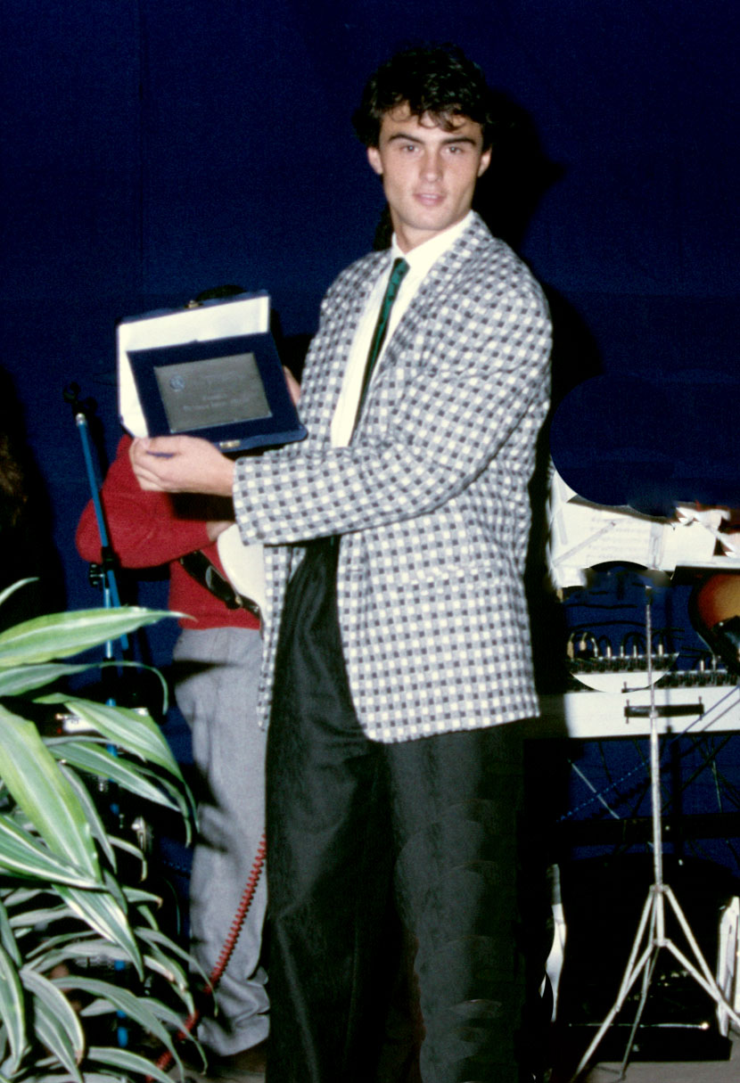 photo by the author